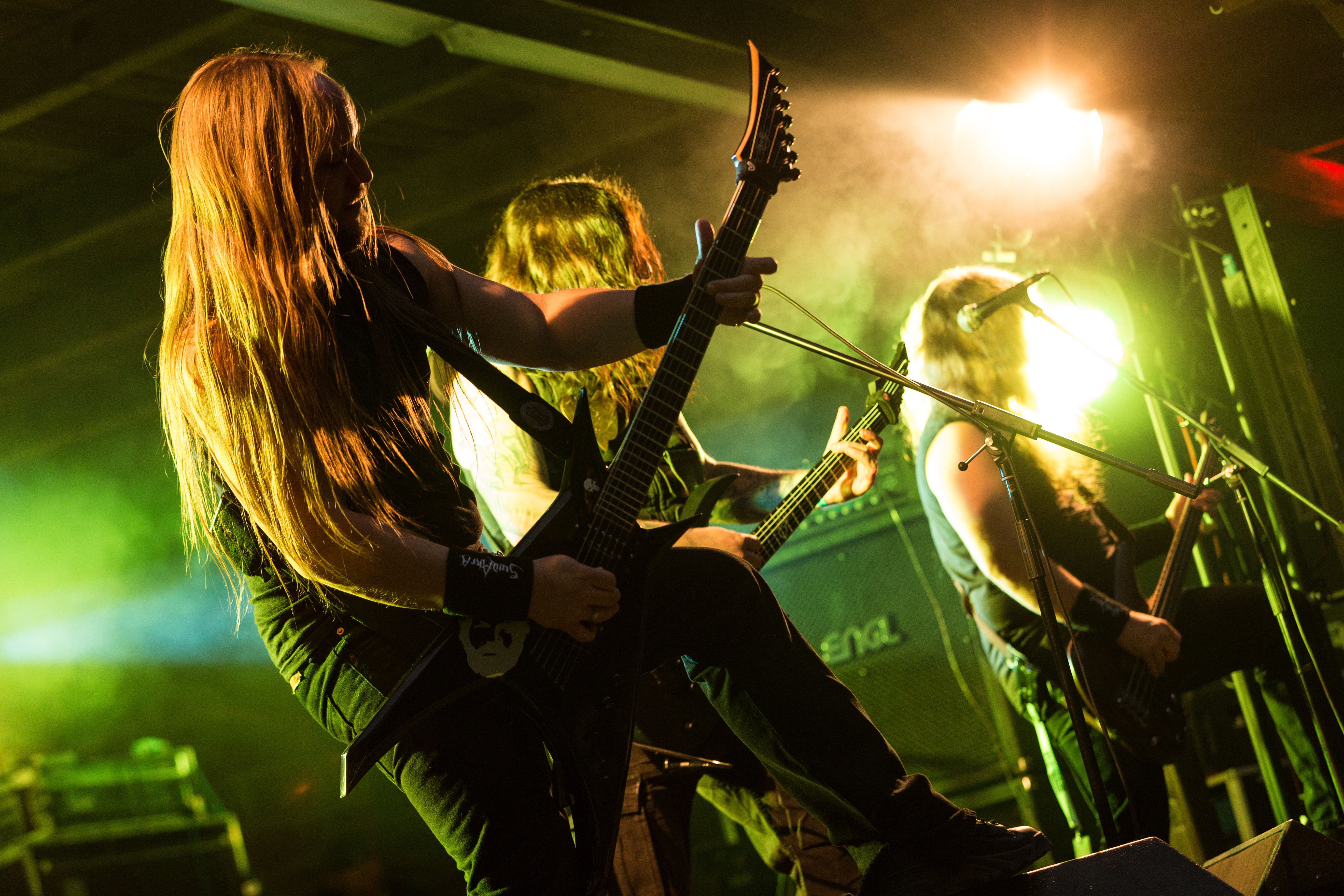 The German melodic death metal band Suidakra at the Dark Troll Open Air 2017 in Bornstedt/Germany.